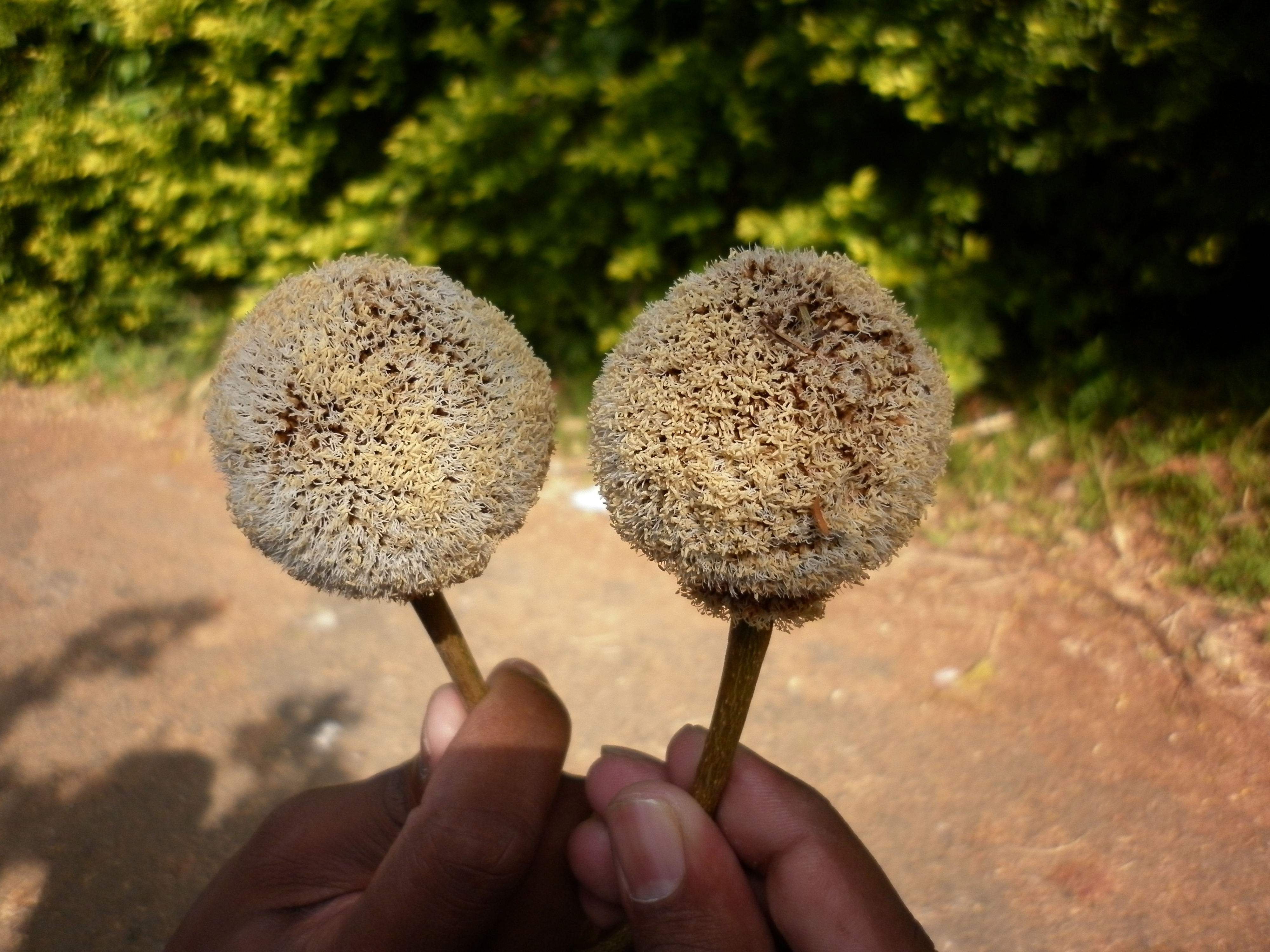 This is taken at AC&RI, Killikulam, India